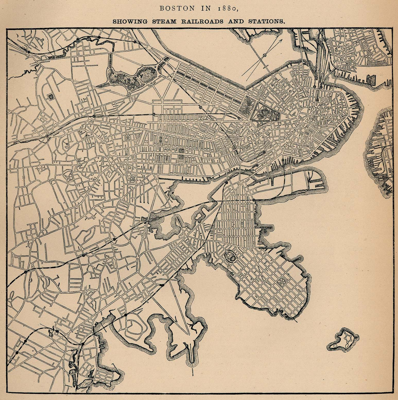 Map of Boston in 1880, highlighting railroads and railroad stations.